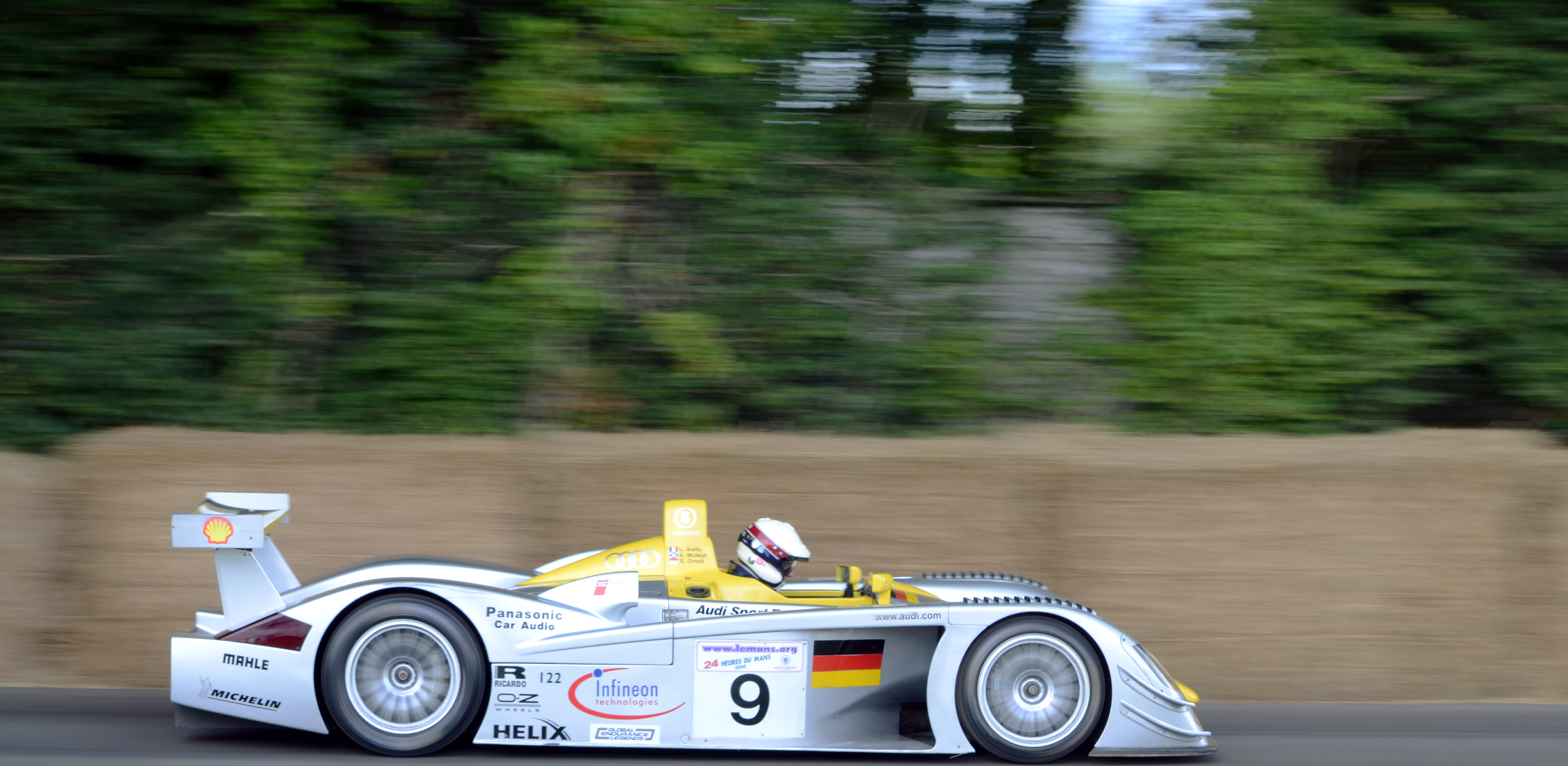 Goodwood Festival of Speed 2017